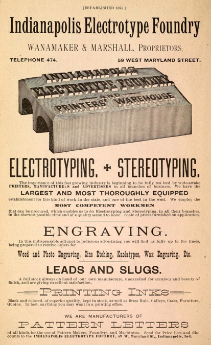 Advertisement, Indianapolis, USA